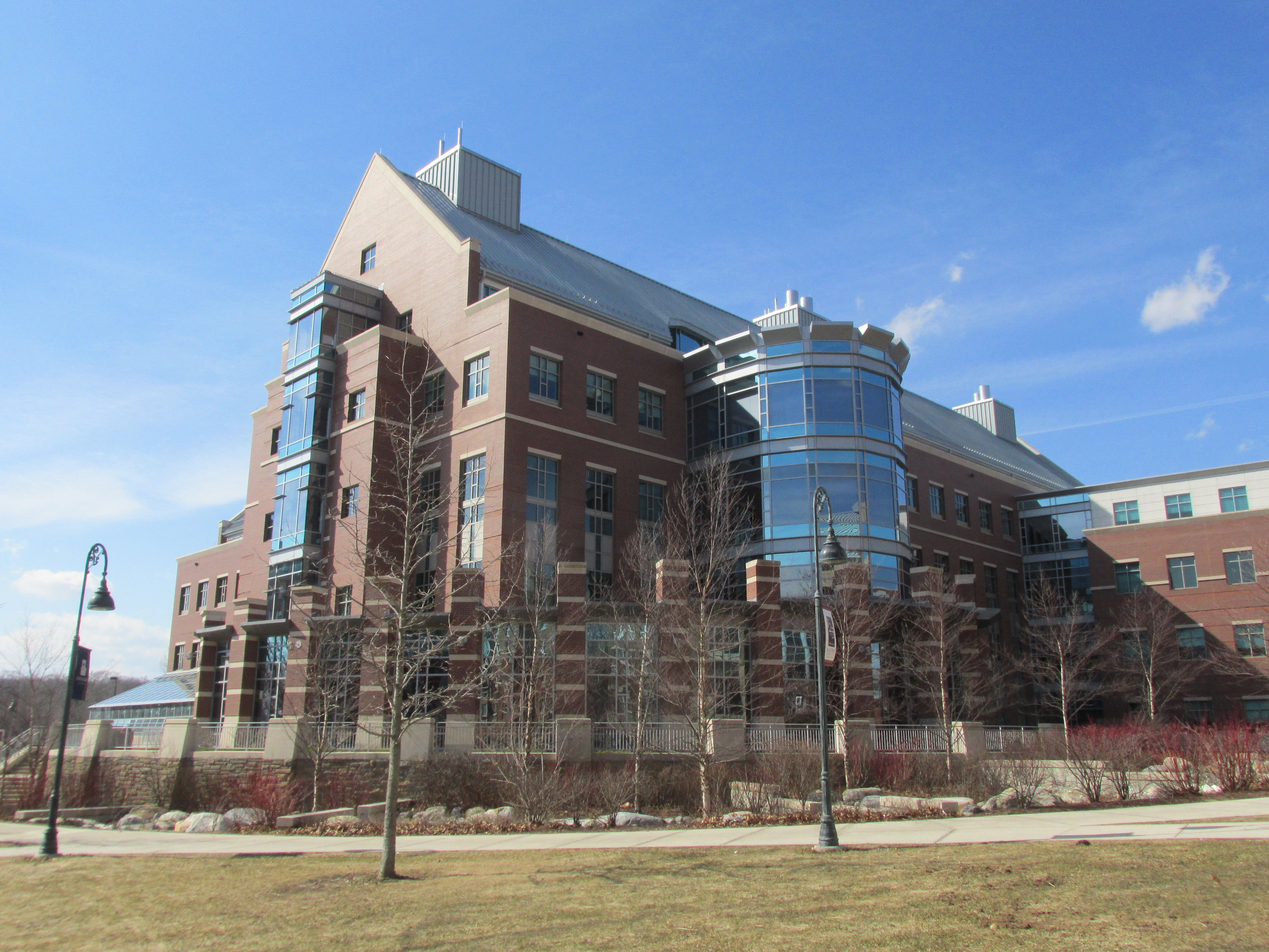 Science Building, Eastern Connecticut State University, Willimantic Connecticut - 2014